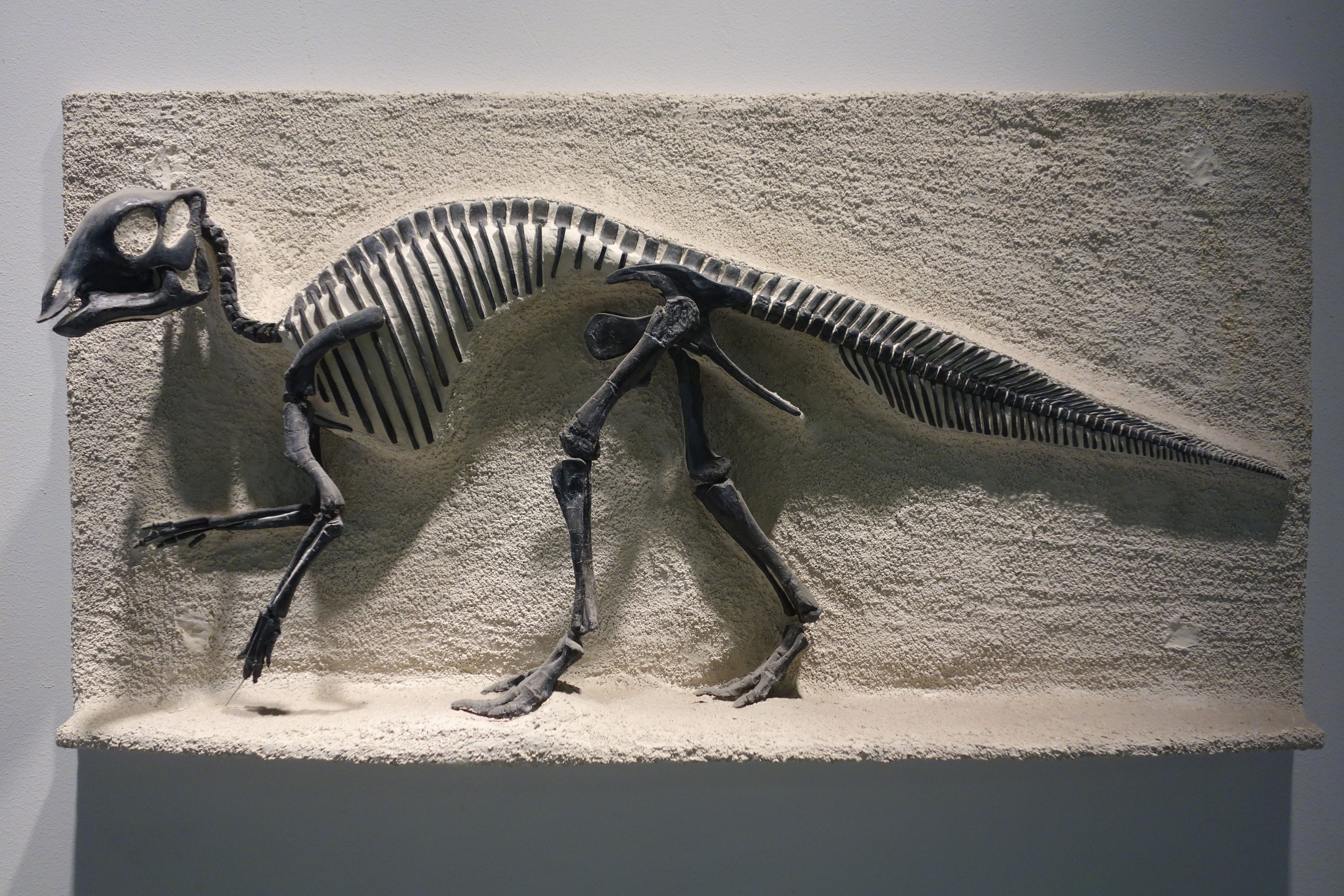 Specimen displayed by the University of California Museum of Paleontology, Berkeley, California, USA. Photography was permitted without restriction.